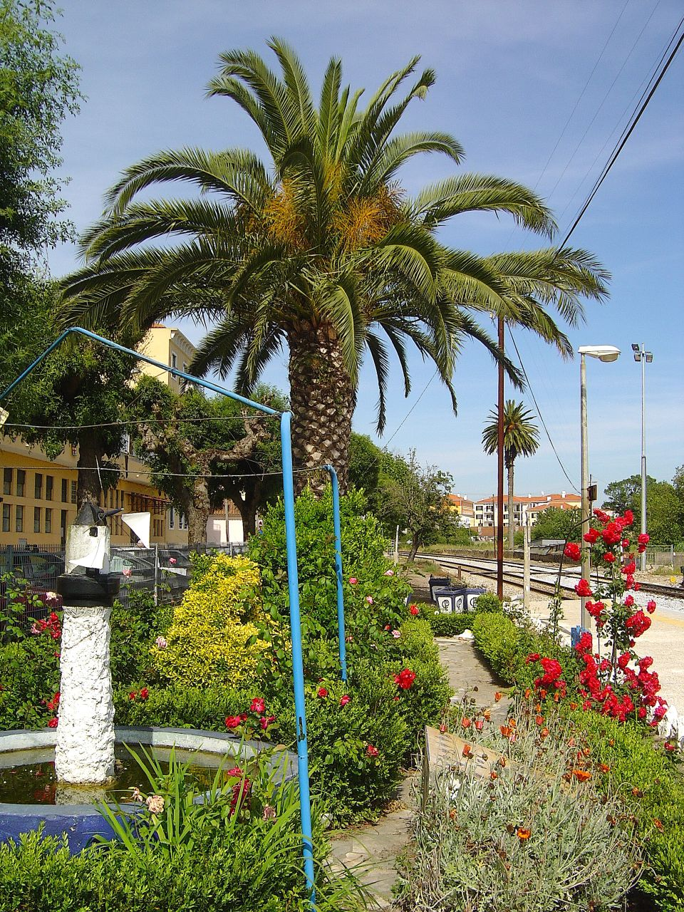 See where this picture was taken. [?]